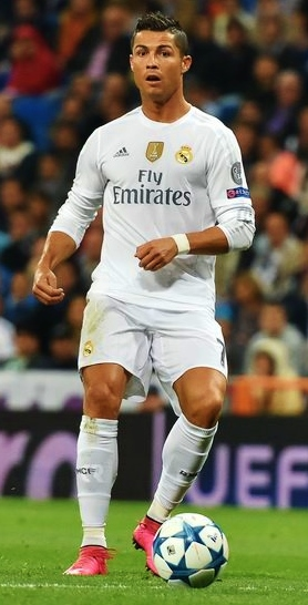 Cristiano Ronaldo